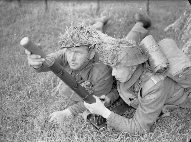 Allied Forces in the United Kingdom 1939-45 A 2-inch mortar team of the Norwegian Brigade during training at Dumfries, Scotland, 27 June 1941.